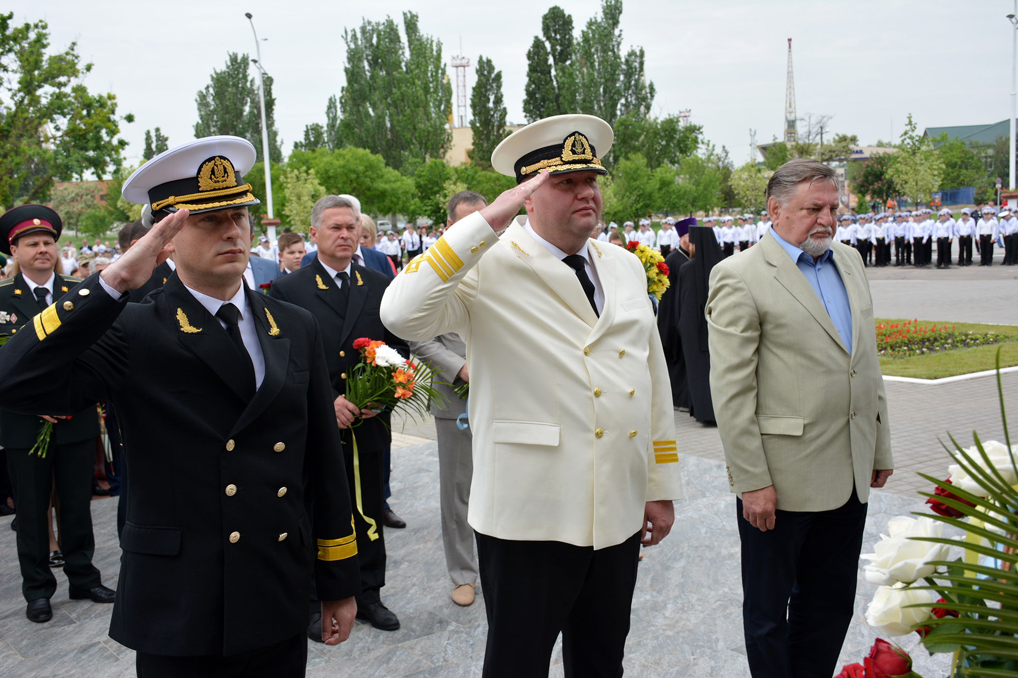 Dmytro Chalyi (center), Chairman of the Board of PJSC "Ukrainian Danube Shipping Company", on Remembrance and Reconciliation Day, May 8, 2018, during the laying of flowers at the monument to the Danube sailors, Izmail (Odessa Oblast, Ukraine).